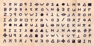 Zodiac Killer cipher, San Francisco Examiner, July 31st 1969